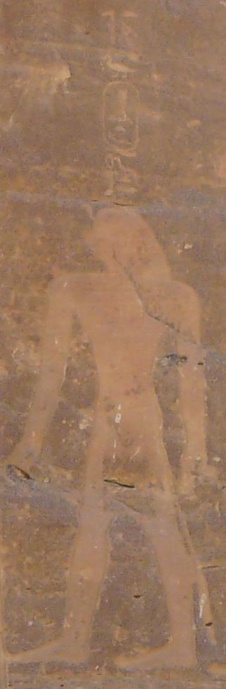 Intef III on the Silsileh petroglyph depicting him, his wife, his son Mentuhotep II and his seal bearer.